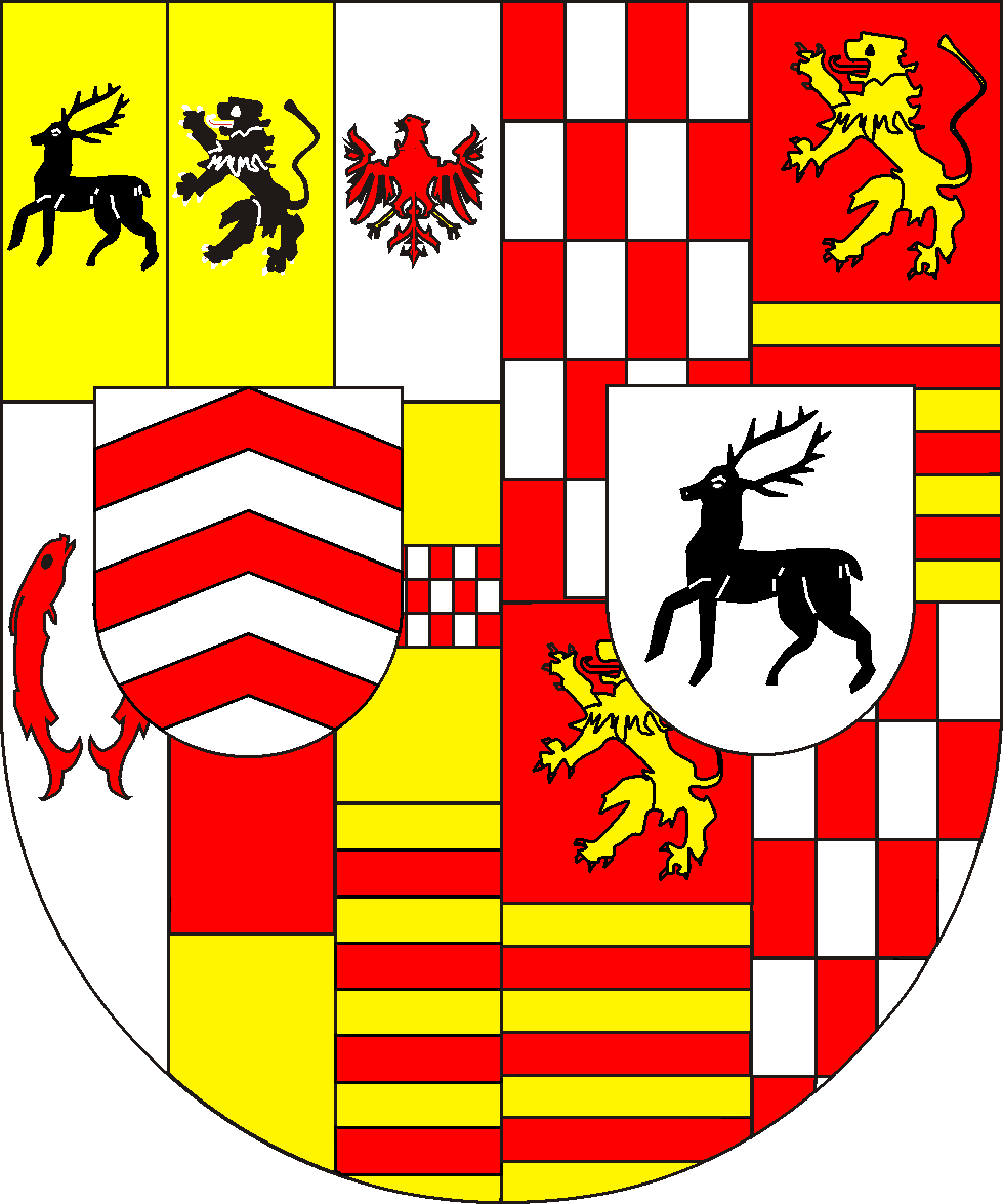 coats o0f arms of the counts of Stolberg (1597); a1: county of Stolberg; a2: lordship of Büdingen; a3: county of Rochefort; a4: county of Wernigerode; a5: county of Mark; a6: lordship of Münzenberg; a7: county of Loon; a-heart: lordship of Eppstein; b1,4: county of Hohnstein; b2,3: county of Lauterberg; b-heart: county of Klettenberg